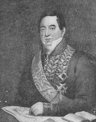 Robert Henrik Rehbinder, Finnish count and civil servant